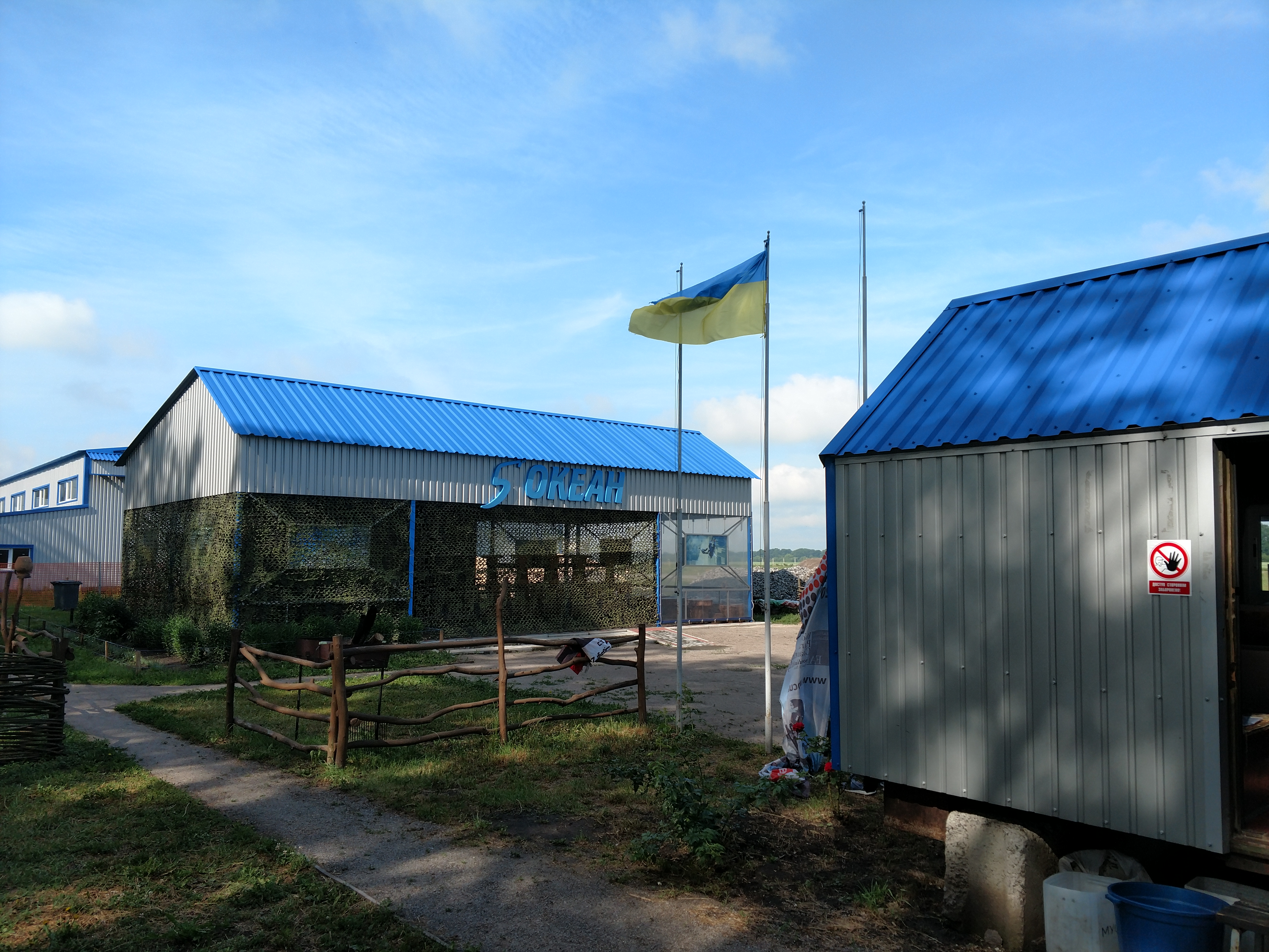 The view on the entrance of Dropzone 5 Ocean